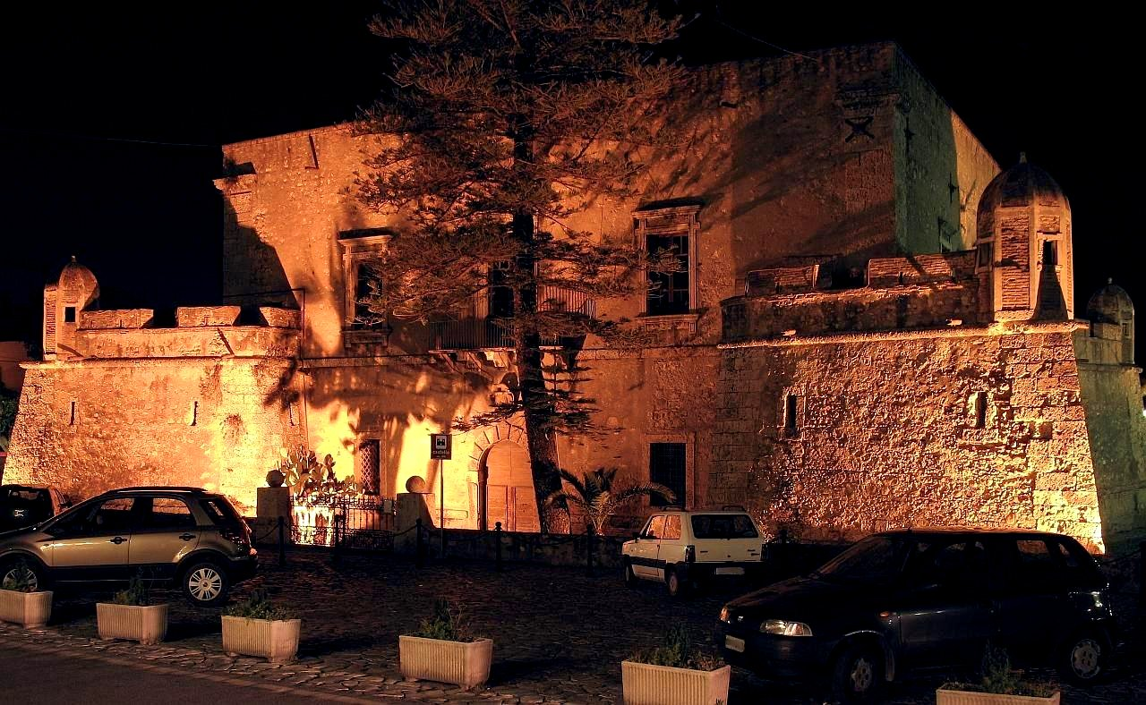 The castle of Spadafora, Southern side, at night.